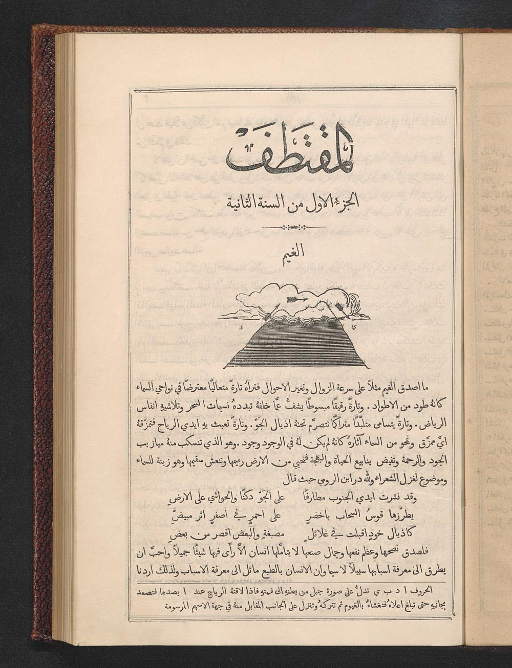 cover of the 1st edition